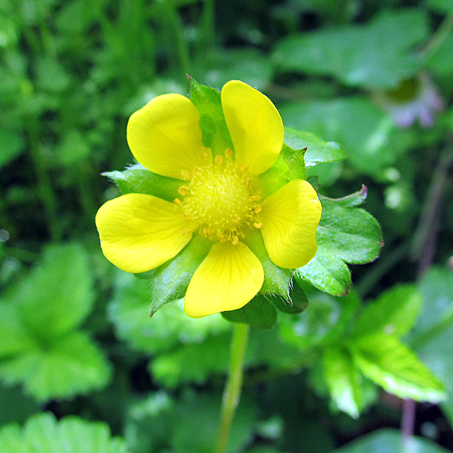 Duchesnea indica flower